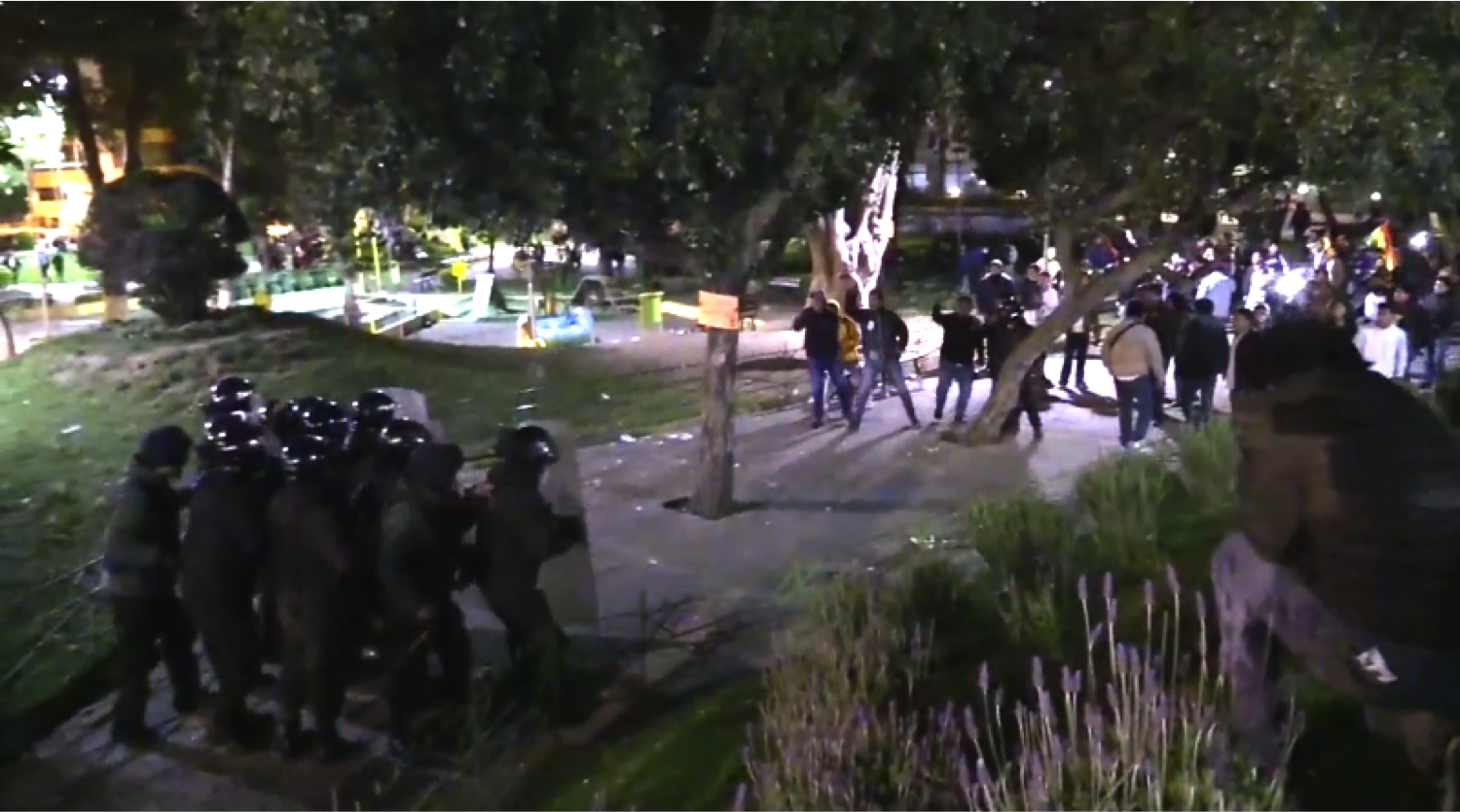 Violent protests in Bolivia in October 2019